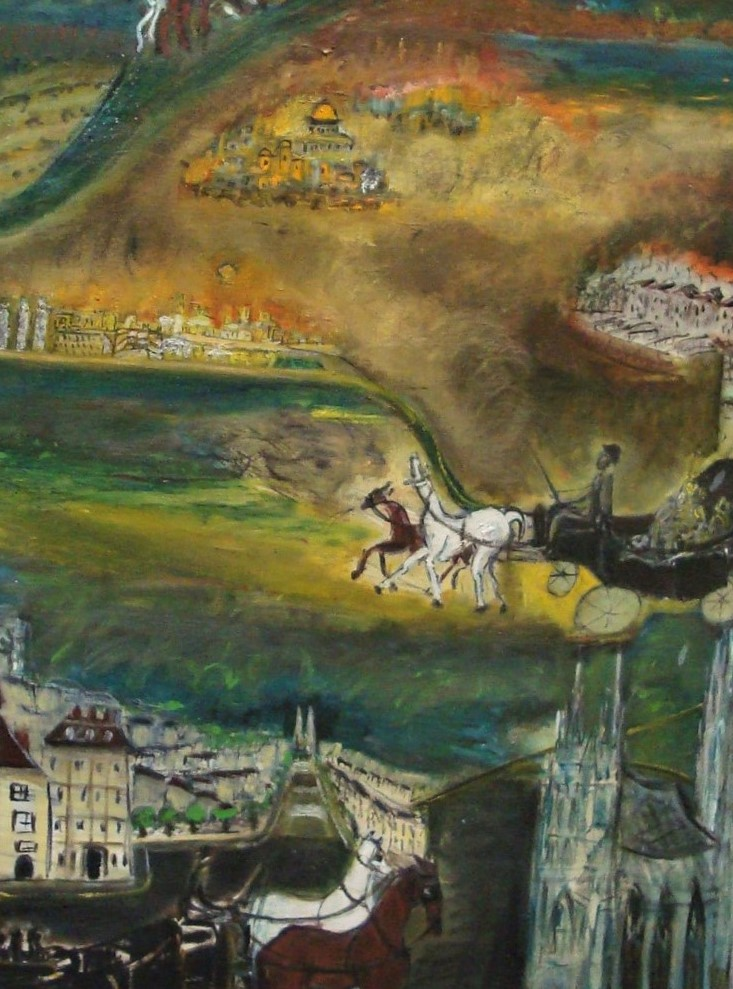 „The Journey“ by Lola Carr. Traveling in the fiacre from Vienna to Paris, to London, to Tel Aviv, to Jerusalem.